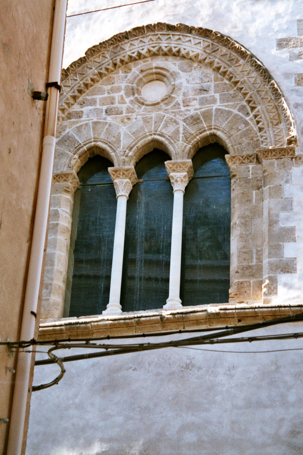 Cefalù, Italy Osterio Magno, window of the 14th century